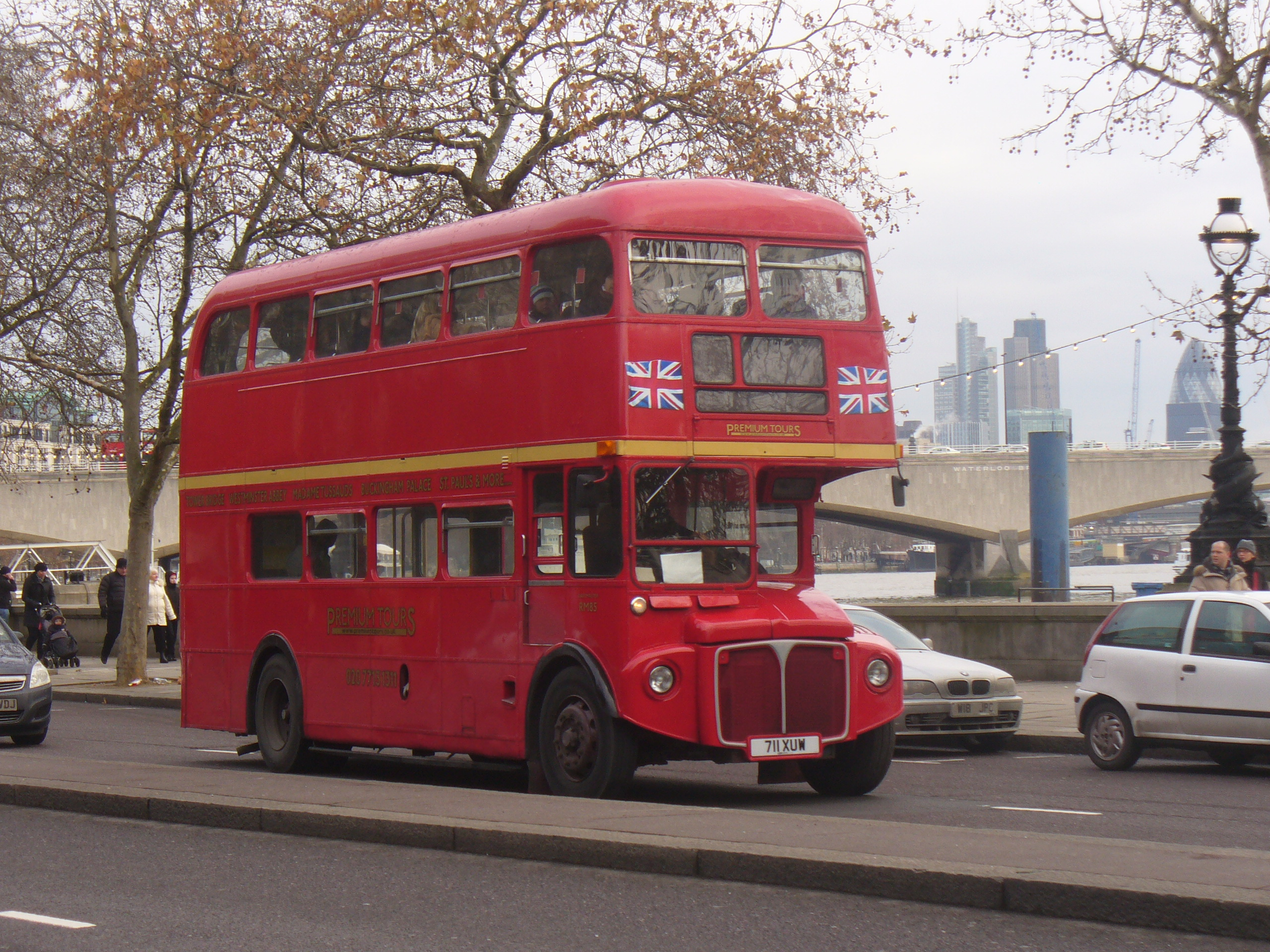 Routemaster RM85 on Victoria Embankment.